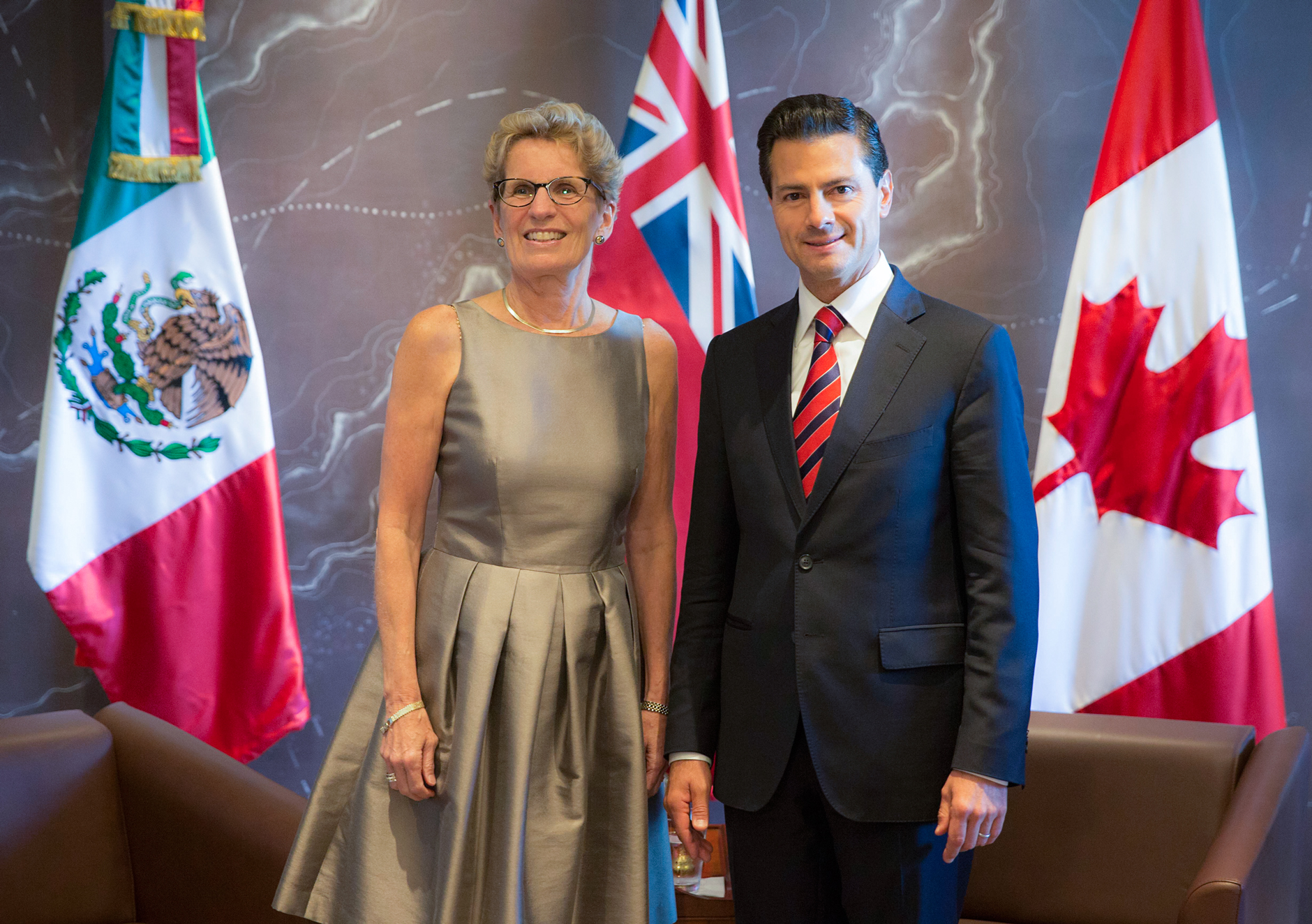 State Visit to Canada - Day 1